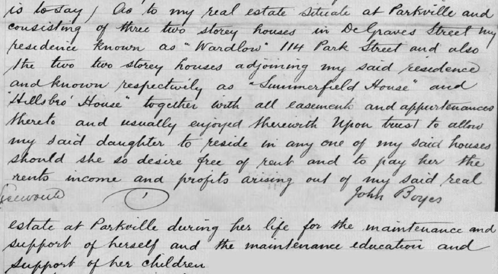 The Will of John Boyes owner of Wardlow in Parkville, Victoria